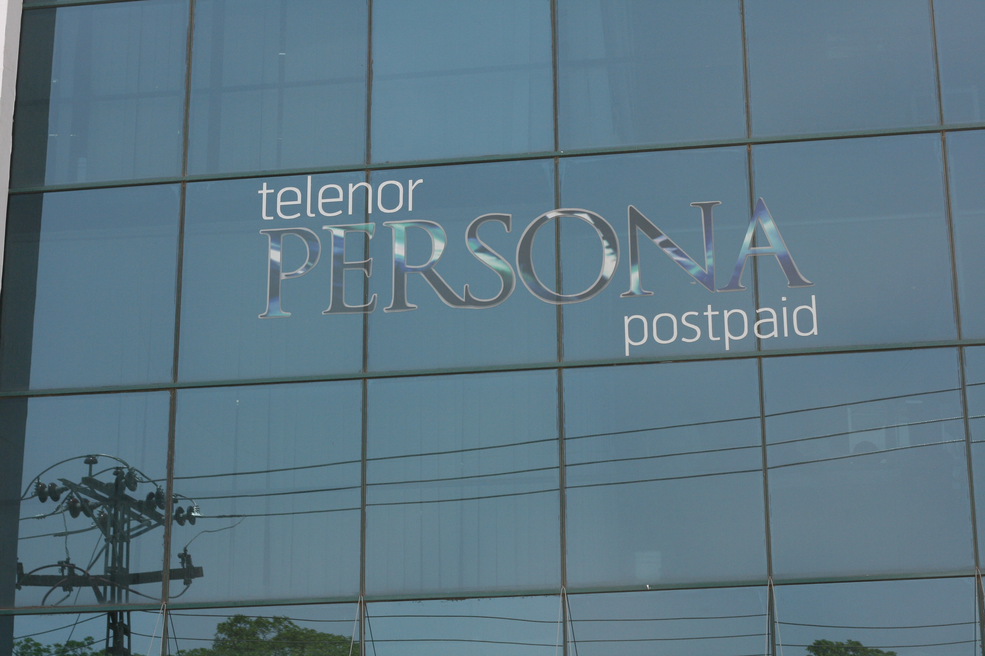 Picture of Telenor Pakistan offices in Islamabad.